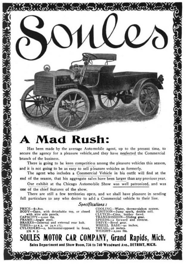 Soules Motor Car Company of Grand Rapids, Michigan - 1906